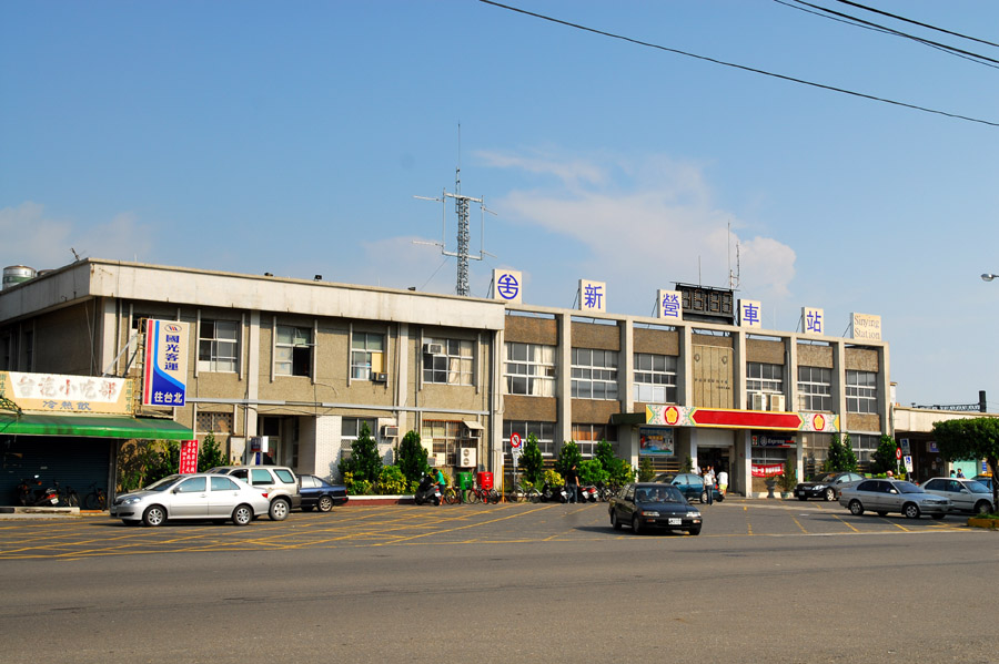 SinYing Station is a local train station of Taiwan's Western main rail line. It's the main station of SinYing City, TaiNan County.Bân-lâm-gú: Sin-iânn Tshia-tsām sī Tâi-thih Tsiòng-kuàn-suànn-siōng ê 1-tsō tē-hng tshia-tsām. Sī Tâi-lâm-kuān Sin-iânn-tshī ê tsú tshia-tsām. 新營車站是台鐵縱貫線上的一座地方車站，是台南市新營區的主車站。